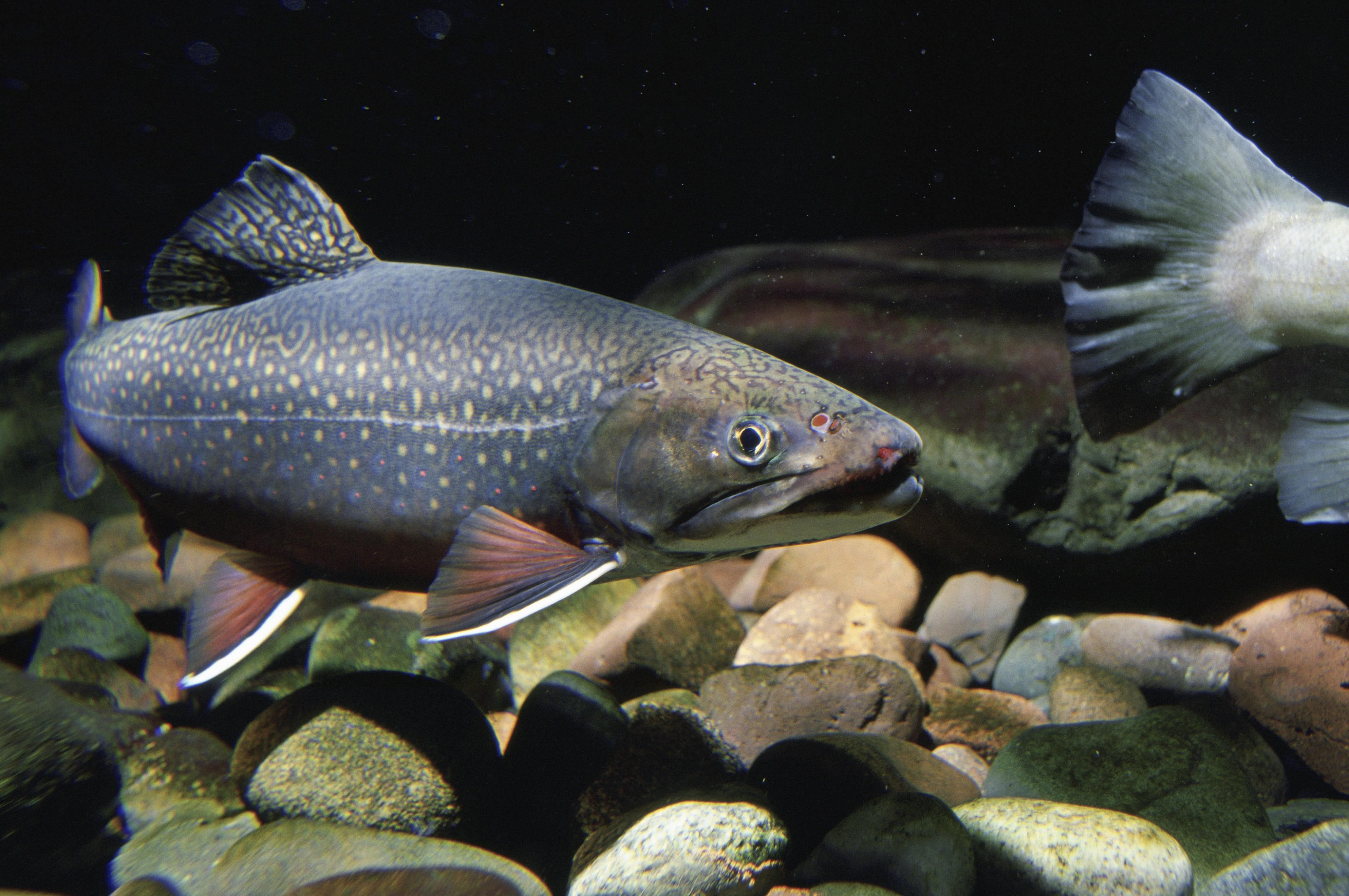 Brook trout (Salvelinus fontinalis) Image title: Brook trout swims in native stream underwater fish image Image from Public domain images website